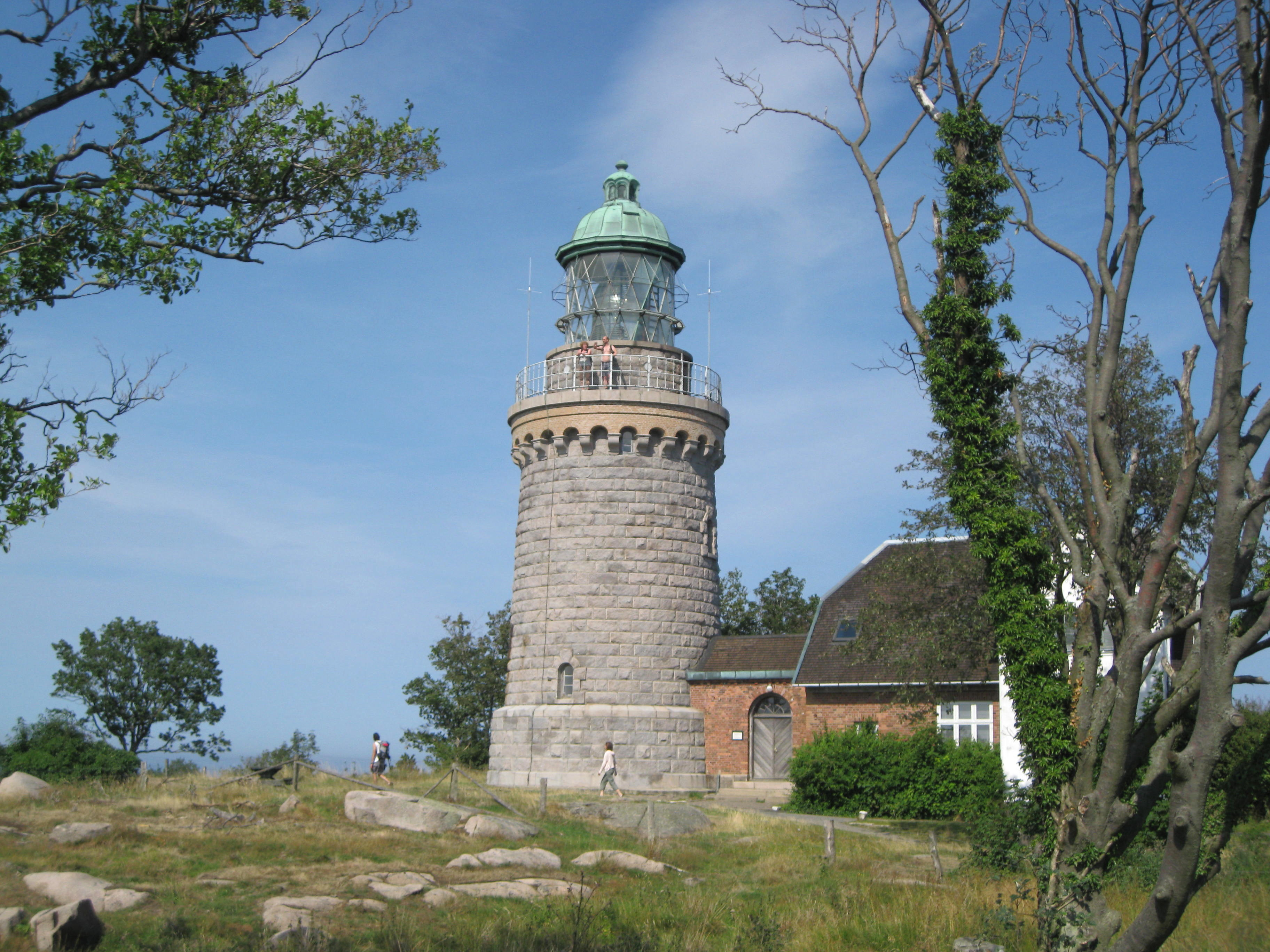 The lighthouse "Hammeren Fyr" at the top of "Hammeren", the northern part of the island Bornholm. The island is located in east Denmark.